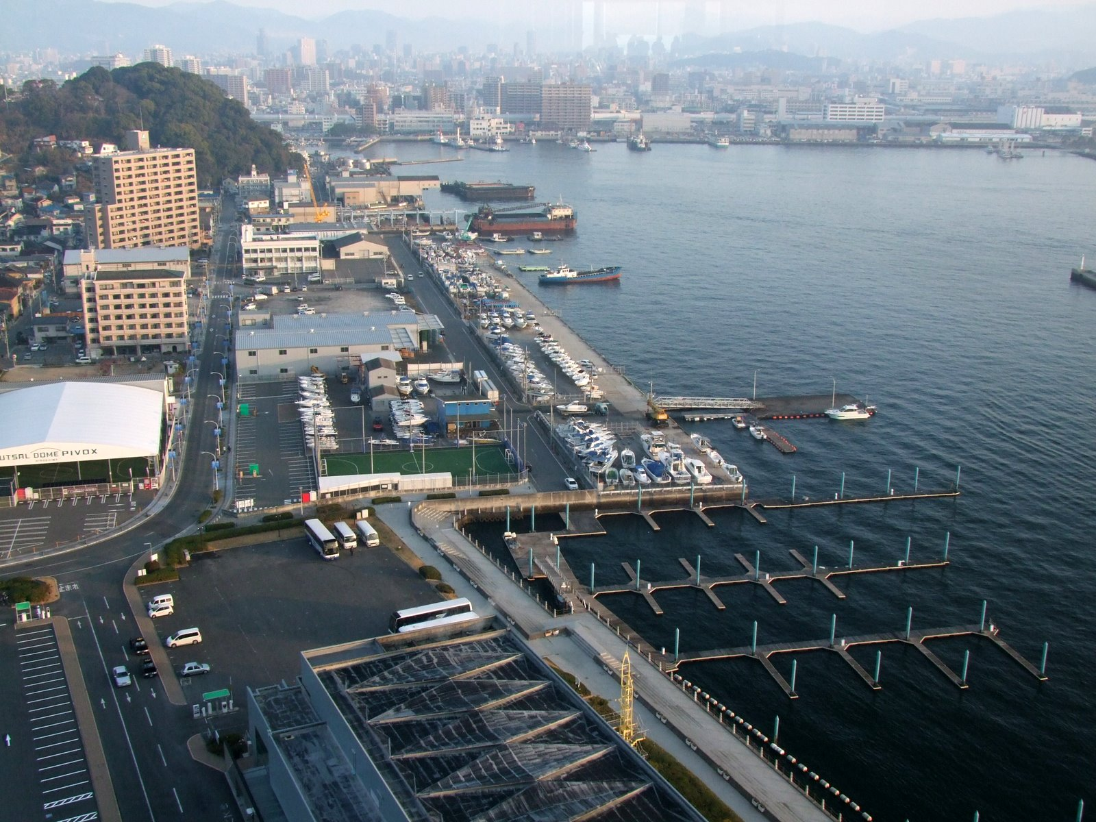 Port of Hiroshima's Moto-Ujina area as seen from the Grand Prince Hotel Hiroshima. Added the location data.--トトト (talk) 00:51, 27 March 2011 (UTC)